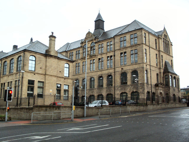 Former Hanson School, Barkerend Road. Built 1897. Now redeveloped as residential apartments. Parts Grade II listed.